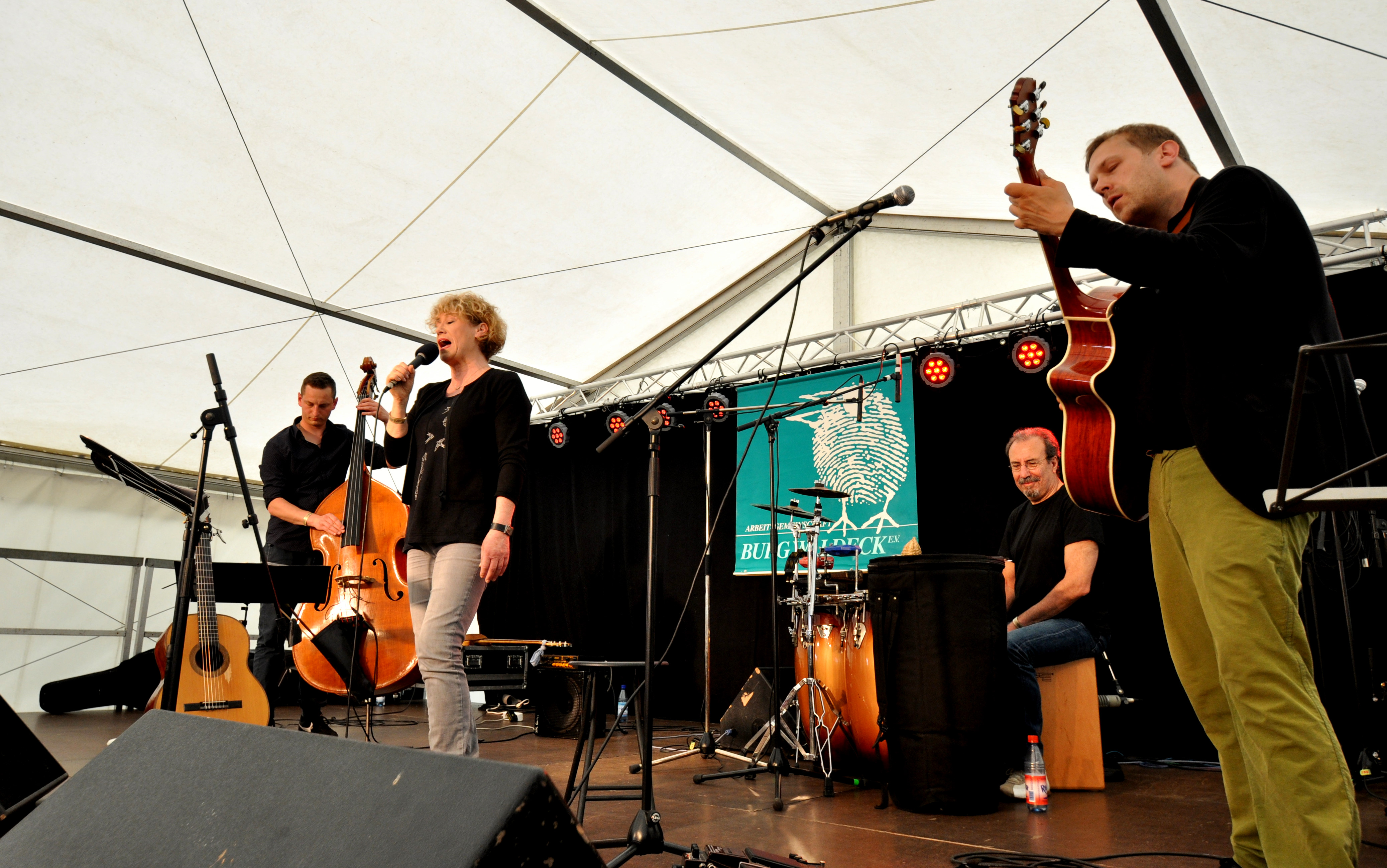 Barbara Thalheim and her trio (DEU) appearance at the 2017 song festival at Burg Waldeck Castle, Rheineland-Palatinate, Germany Festivalsommer This photo was created with the support of donations to Wikimedia Deutschland in the context of the CPB project "Festival Summer".